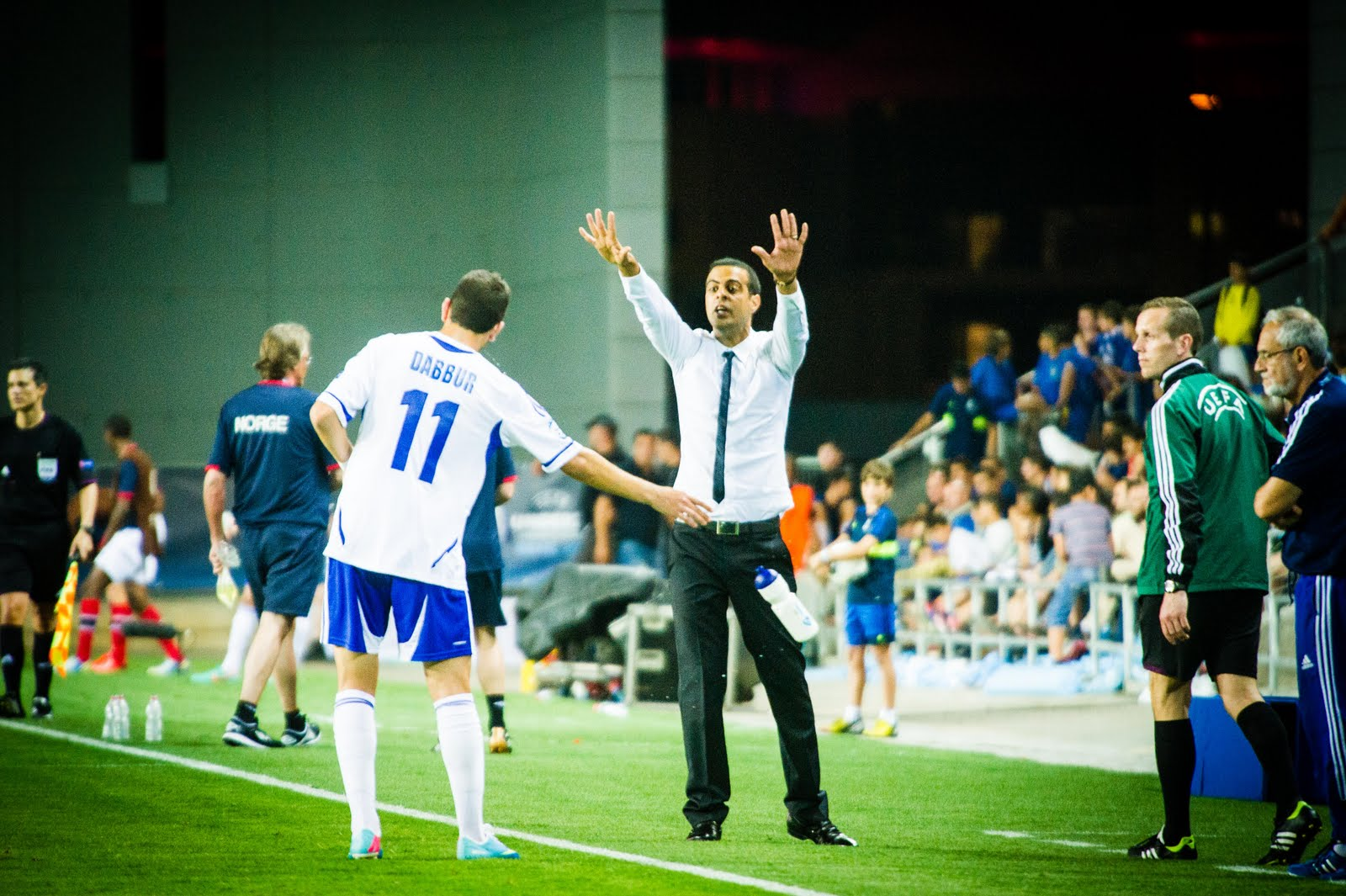 UEFA U21s Football championships in Israel between Israel & Norway Photo By David Katz